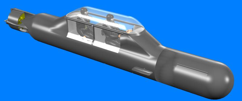 Roofed sit-inside divers' 'chariot'. 27 feet 9 inches (8.46 meters) long. Hull 3 feet 5 inches (1.04 meters) diameter ignoring hydroplanes.